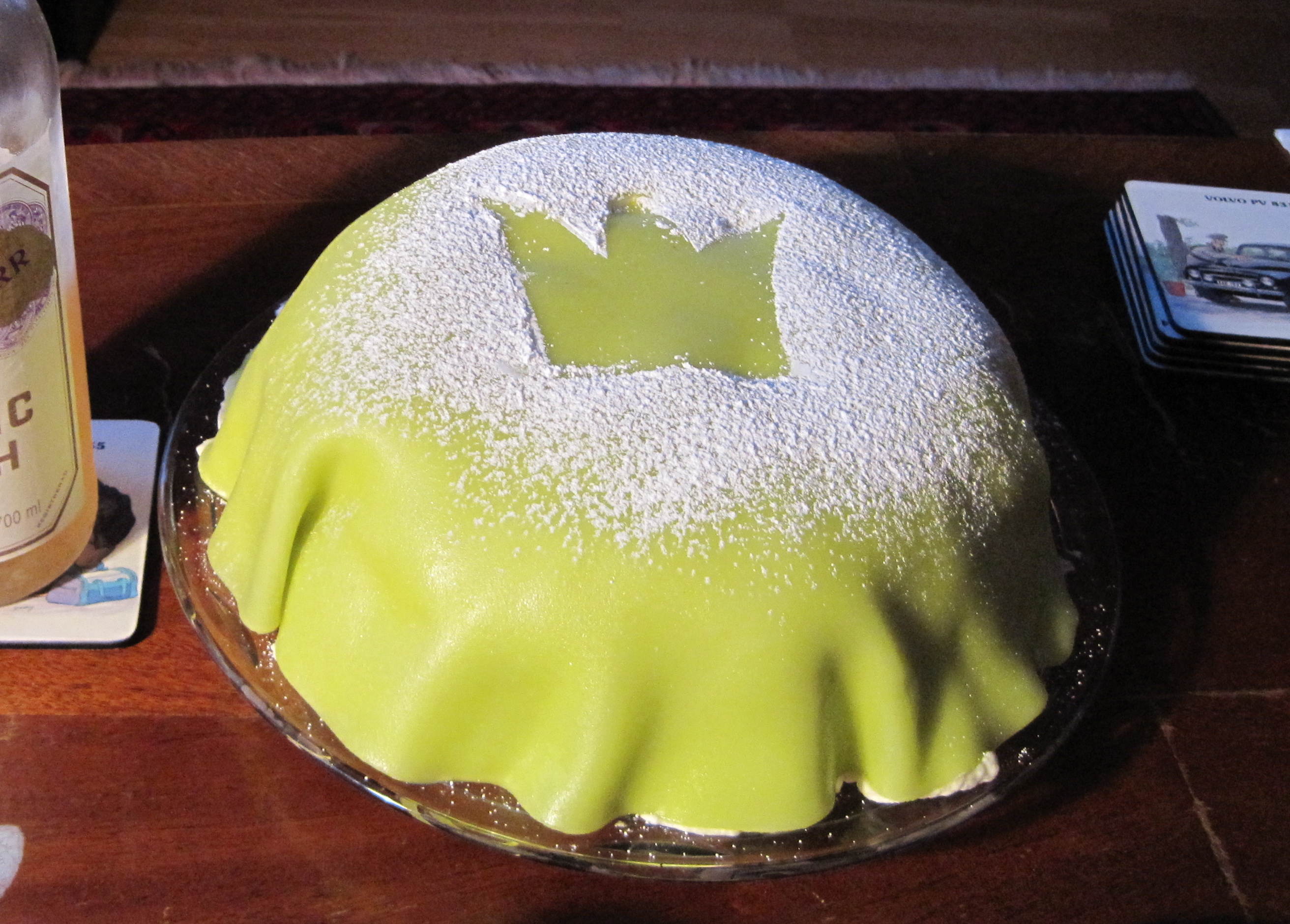 Prinsesstårta, a traditional Swedish cake filled with a.o. whipped cream, custard and jam, and covered with green marzipan.